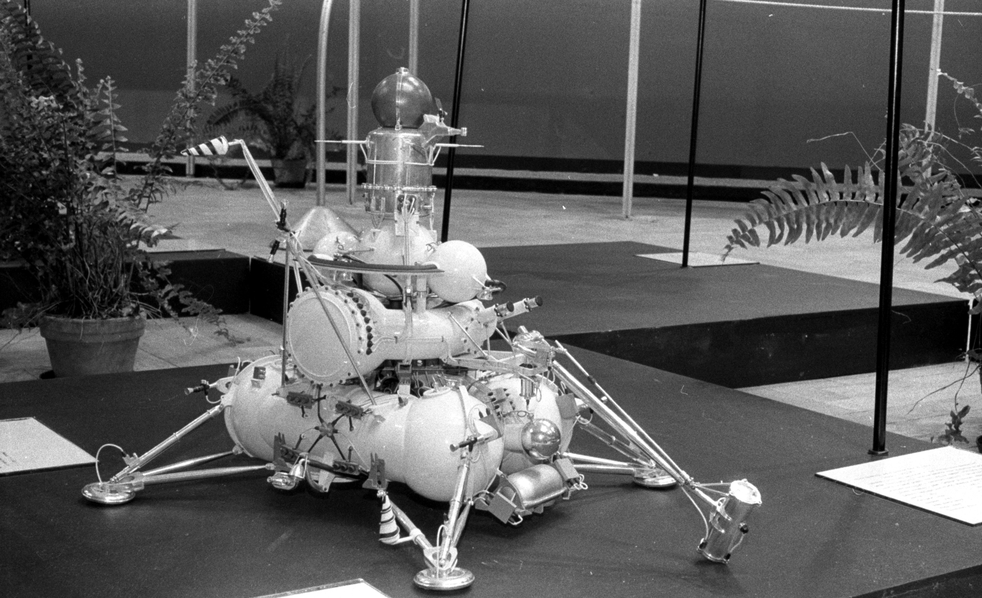 Model of soviet unmanned spacecraft Luna 24 exhibited in Prague around 1980